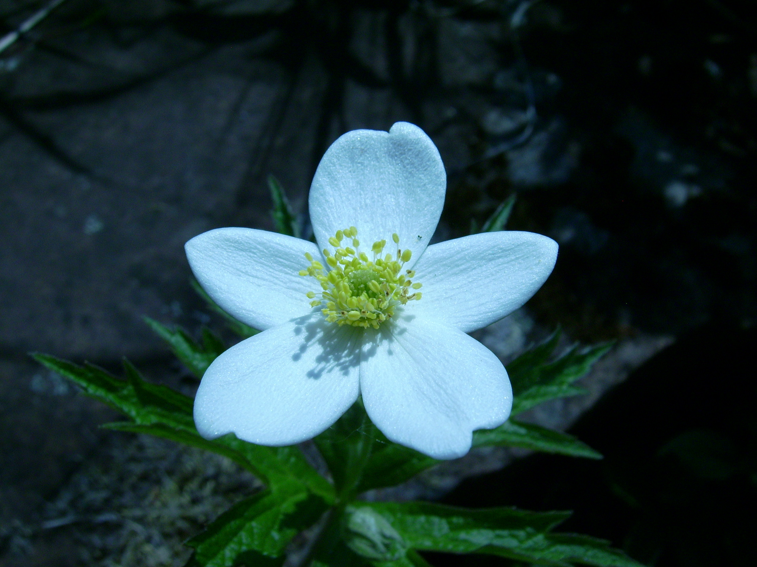 Anemone canadensis (Canada anemone), Whitefish Island, Batchewana First Nation of Ojibways.